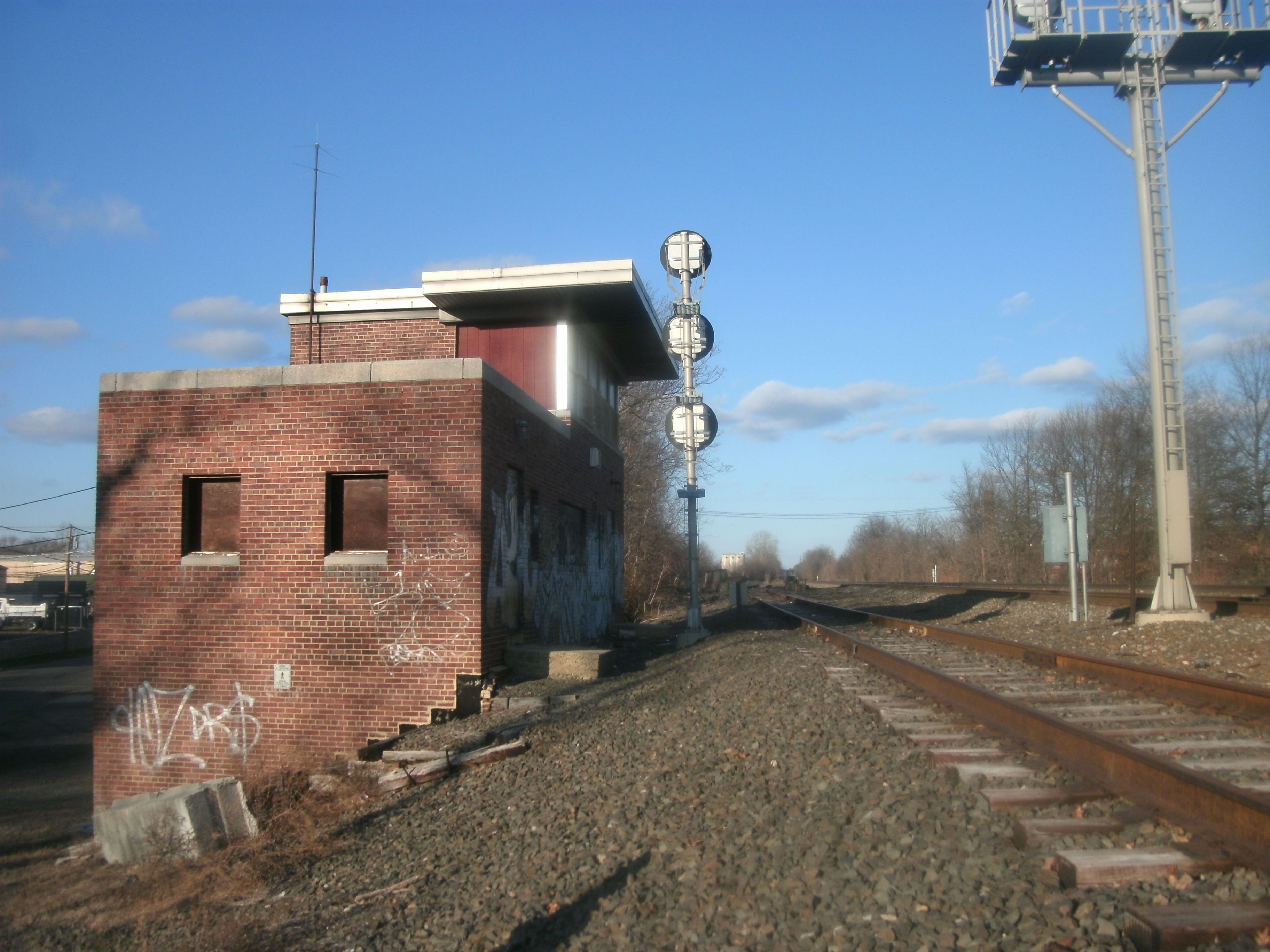 The closed Queen Tower in Plainfield, New Jersey on New Jersey Transit's Raritan Valley Line. The Central Railroad of New Jersey used this tower and it continued into Conrail and New Jersey Transit, who closed it in the mid-1980s.